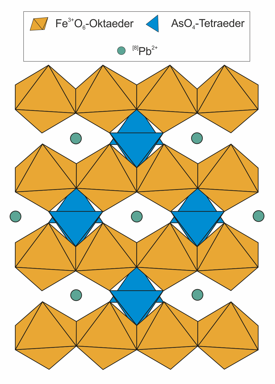 Simplified illustration of the structure of mawbyite down [001]. Reference: Kharisun et al., Mineralogical Magazine, 1997, vol. 61, pp. 685–691.